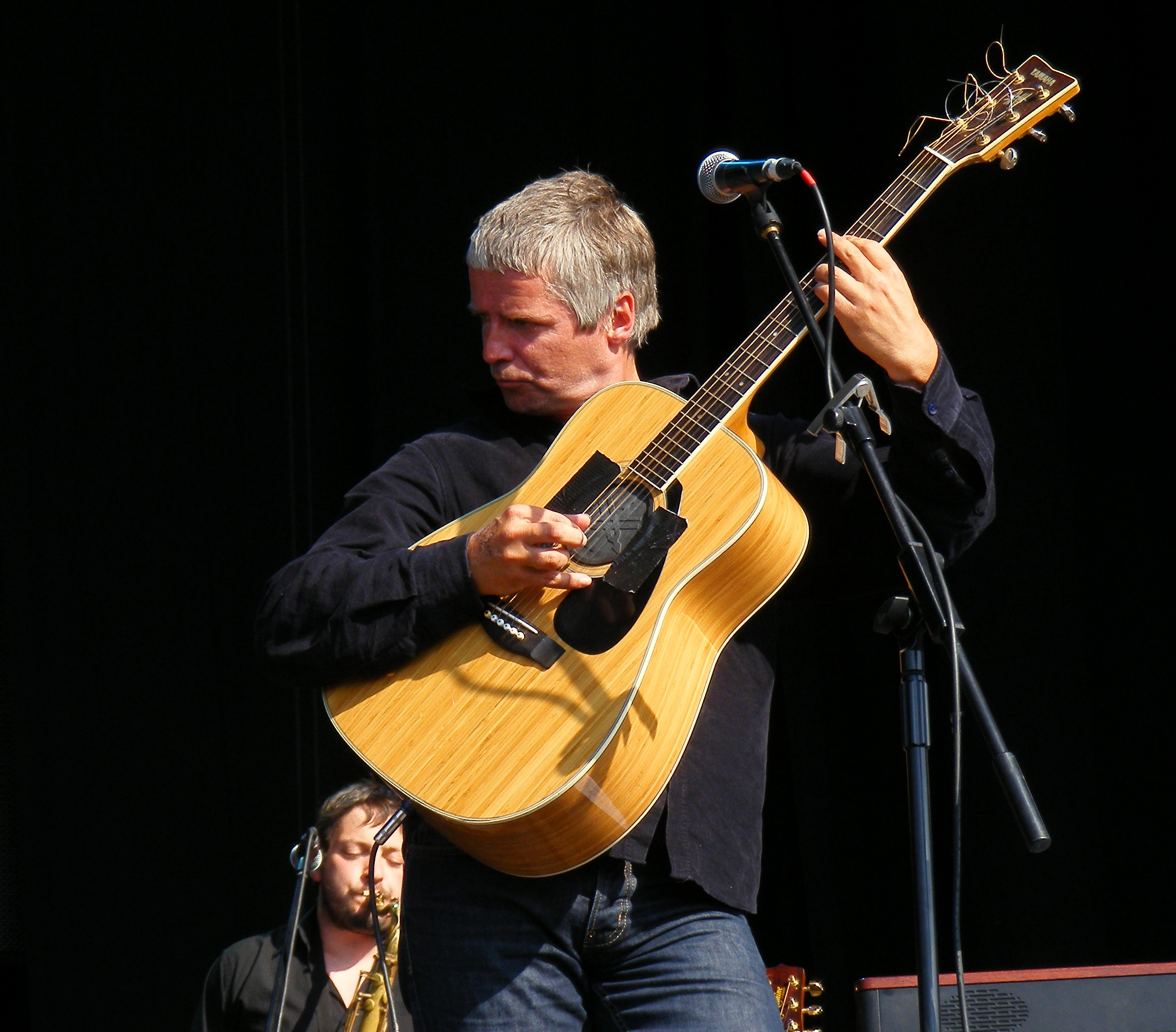 I Am Kloot's John Bramwell performing with the band at Chester Rocks on the 3rd of July 2011.